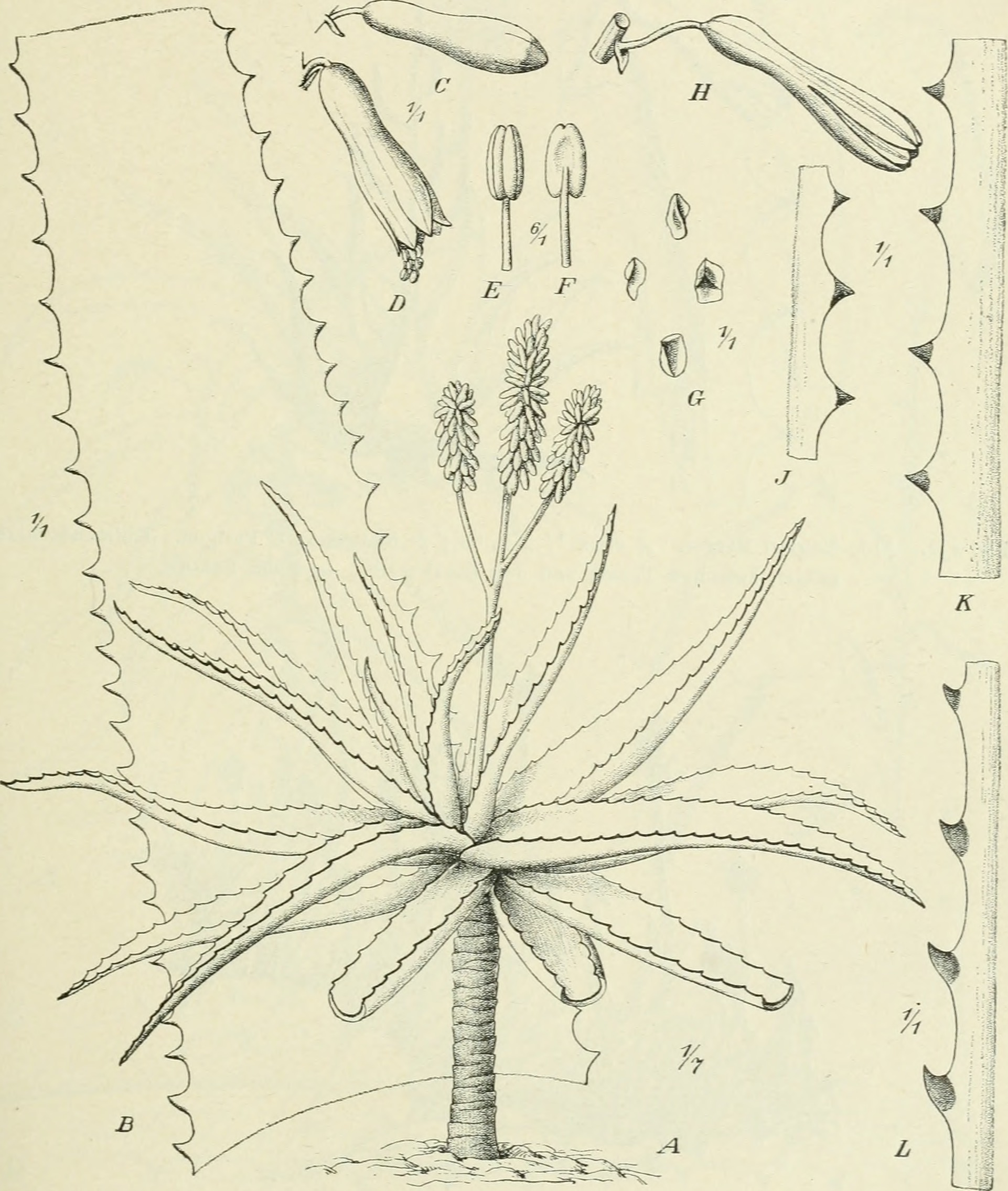 Title: Die Pflanzenwelt Afrikas, insbesondere seiner tropischen Gebiete : Grundzge der Pflanzenverbreitung im Afrika und die Charakterpflanzen Afrikas Year: 1910 (1910s) Authors: Engler, Adolf, 1844-1930 Subjects: Botany Publisher: Leipzig : W. Engelman Text Appearing Before Image: Liliiflorae. — Liliacese. 333 cylindrischem Perigon und freien Perigonblättern: ihre wichtigste Art ist die am Tafelberg bei Kapstadt um 4c o m ü. M wachsende A. succotrina Lam. (Fig. 237). Nächst dieser die Gruppe der Arborescentes mit der uno-emein Text Appearing After Image: Fig. 231. A—G Aloe Perni Bak. auf Socotra. G Samen. — H—L A. Rivae Bak. .Somaliland, Gobbo Duaya und Coromma im nordwestlichen Boran.) formenreichen A. arborescem :\Iill. (Fig. 238), zu welcher auch die aus dem Kapland bis nach Natal verbreitete var. iiatalensis (Wood et Evansj Berger gehört, eine bis 2 m hohe, oft vom Grund an verzweigte Pflanze; ferner schließt